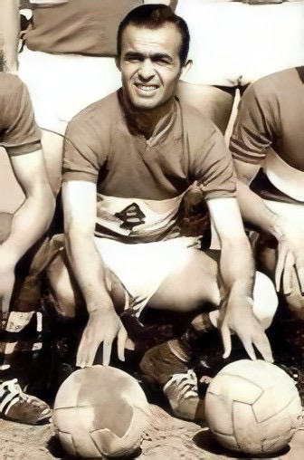 Lineup of the Lebanon national football team at the 1966 Arab Nations Cup.Bottom row (from right to left): Apo Kasabian, Ragheb Shaker, Adnan Mekdache (Adnan Al Sharqi), Mohamed Chatila, Mahmoud Bourjawi (Abou Taleb);Top row (from right to left): Samih Chatila, Sohail Rahal, Tabello (Muhieddine Itani), Elias George, Habib Kamouna, Joseph Abou Murad.